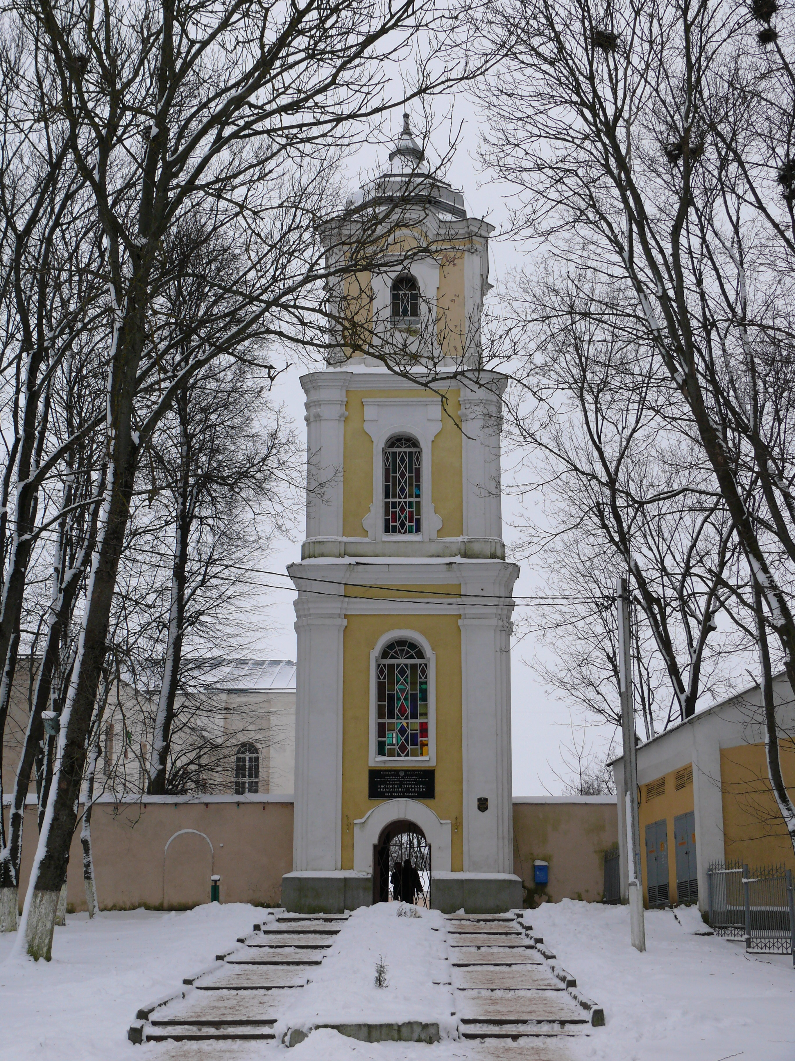 Tower of the former Convent of Benedictine Sisters in Nyasvizh, Belarus (now housing Pedagogical College)